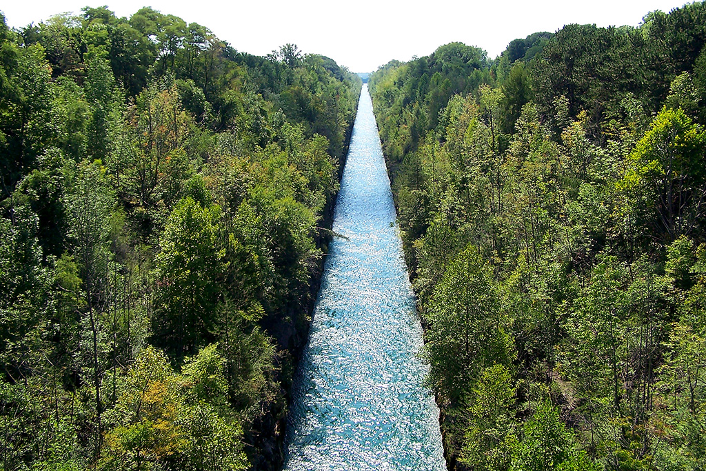 Queenston-Chippawa power canal. Opened to flow the water from Welland River to the Sir Adam Beck #1 power station, in Niagara Falls, Canada.